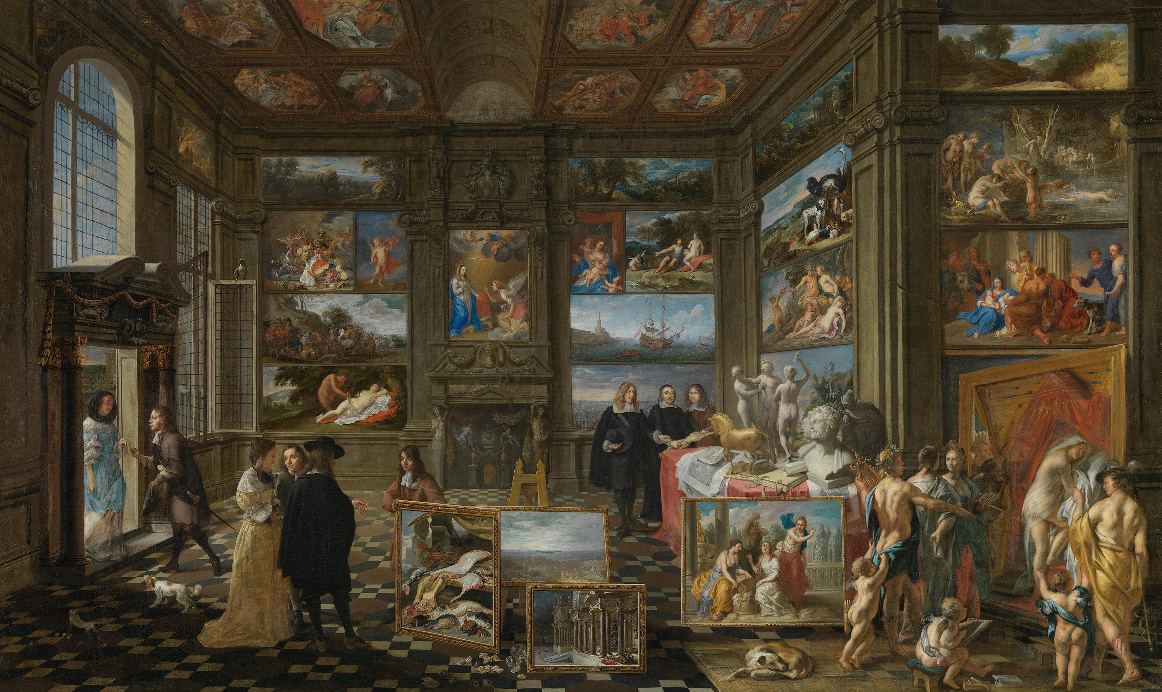 This image is available from the Netherlands Institute for Art Historyunder digital ID 241333. This tag does not indicate the copyright status of the attached work. A normal copyright tag is still required. See Commons:Licensing.